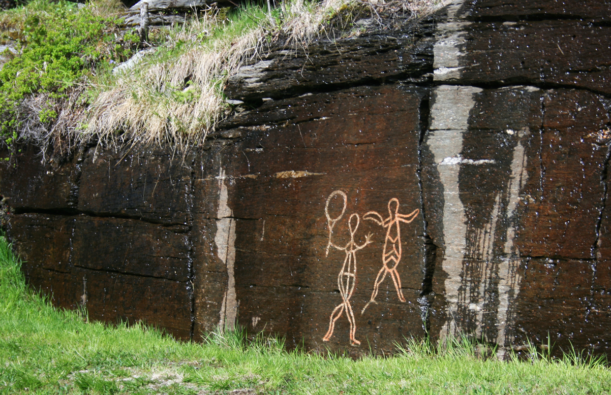 2=Rock art at Skavberget, Tromsø in Norway